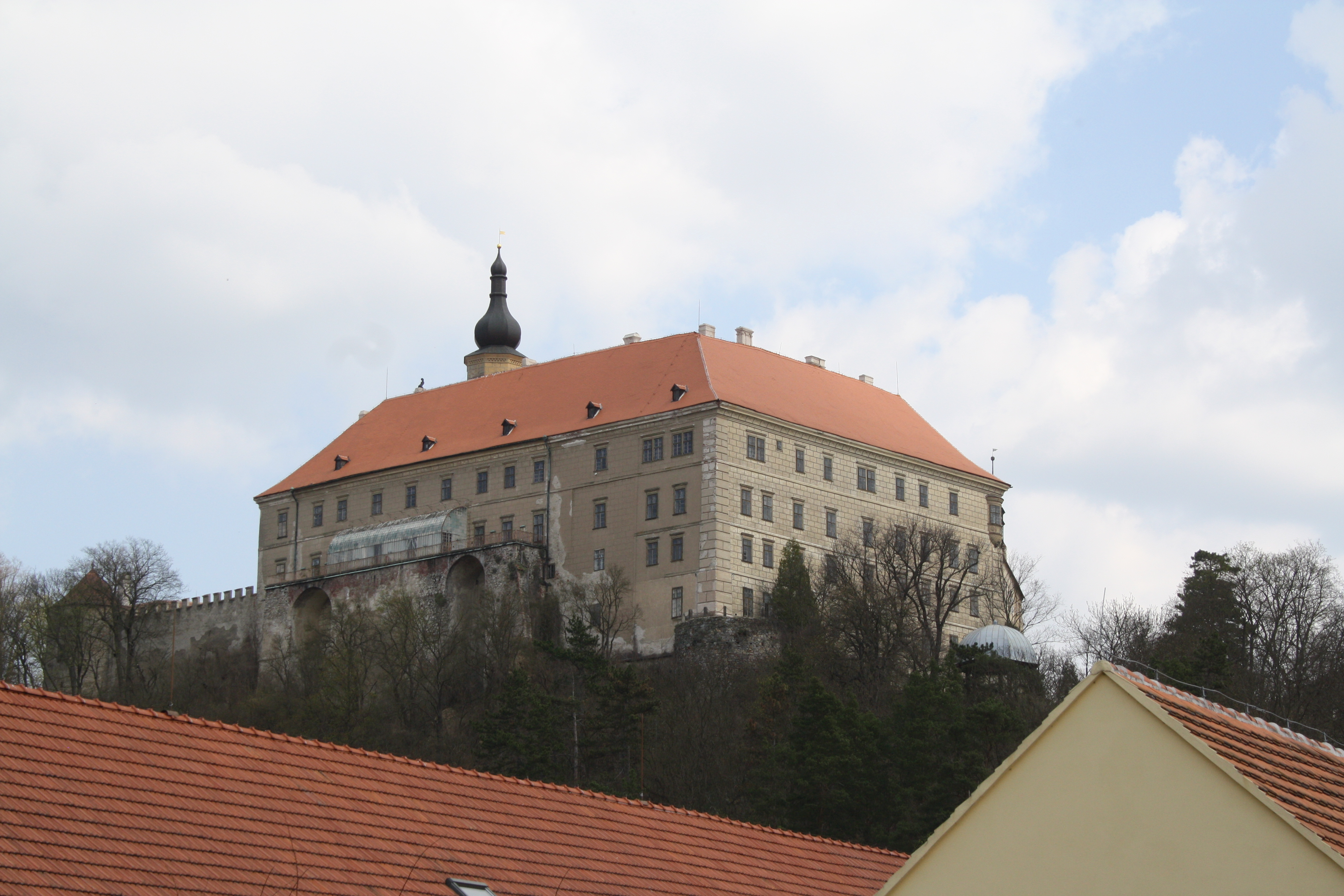 Náměšť nad Oslavou castle, photo taken from Masaryk square.